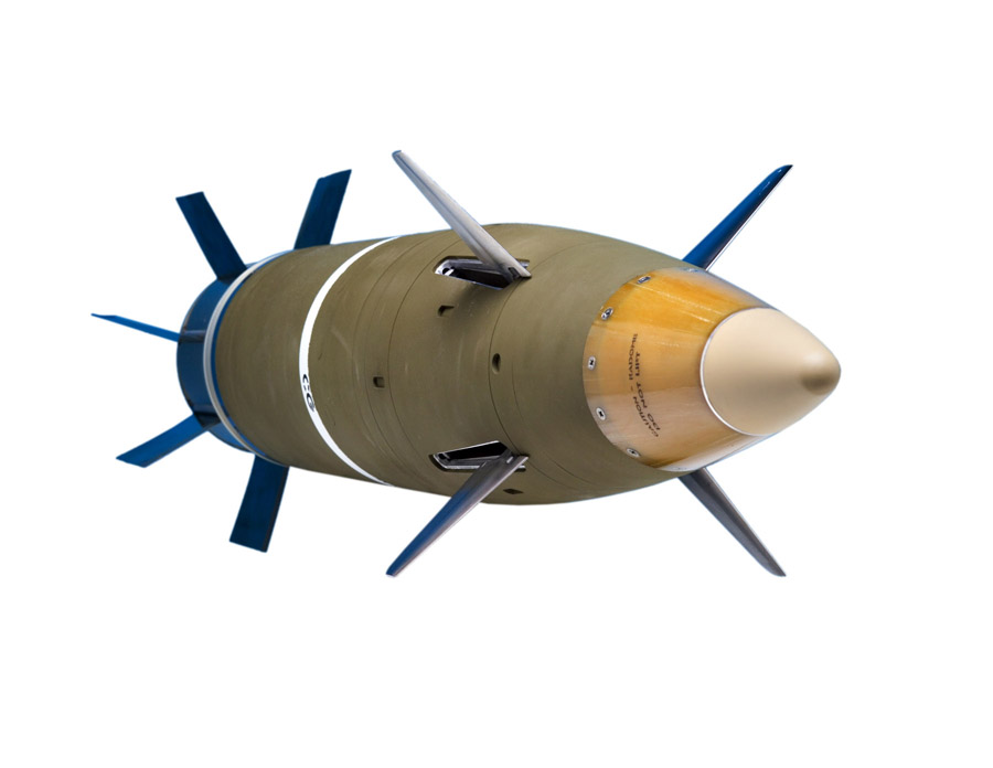 PICATINNY ARSENAL, N.J. — Picatinny employees were recognized for their work on the Excalibur, a precision, autonomously guided, 155 mm artillery round with extended range. The XM982 Excalibur projectile provides accurate, first-round, fire-for-effect capability in an urban setting, resulting in low collateral damage.